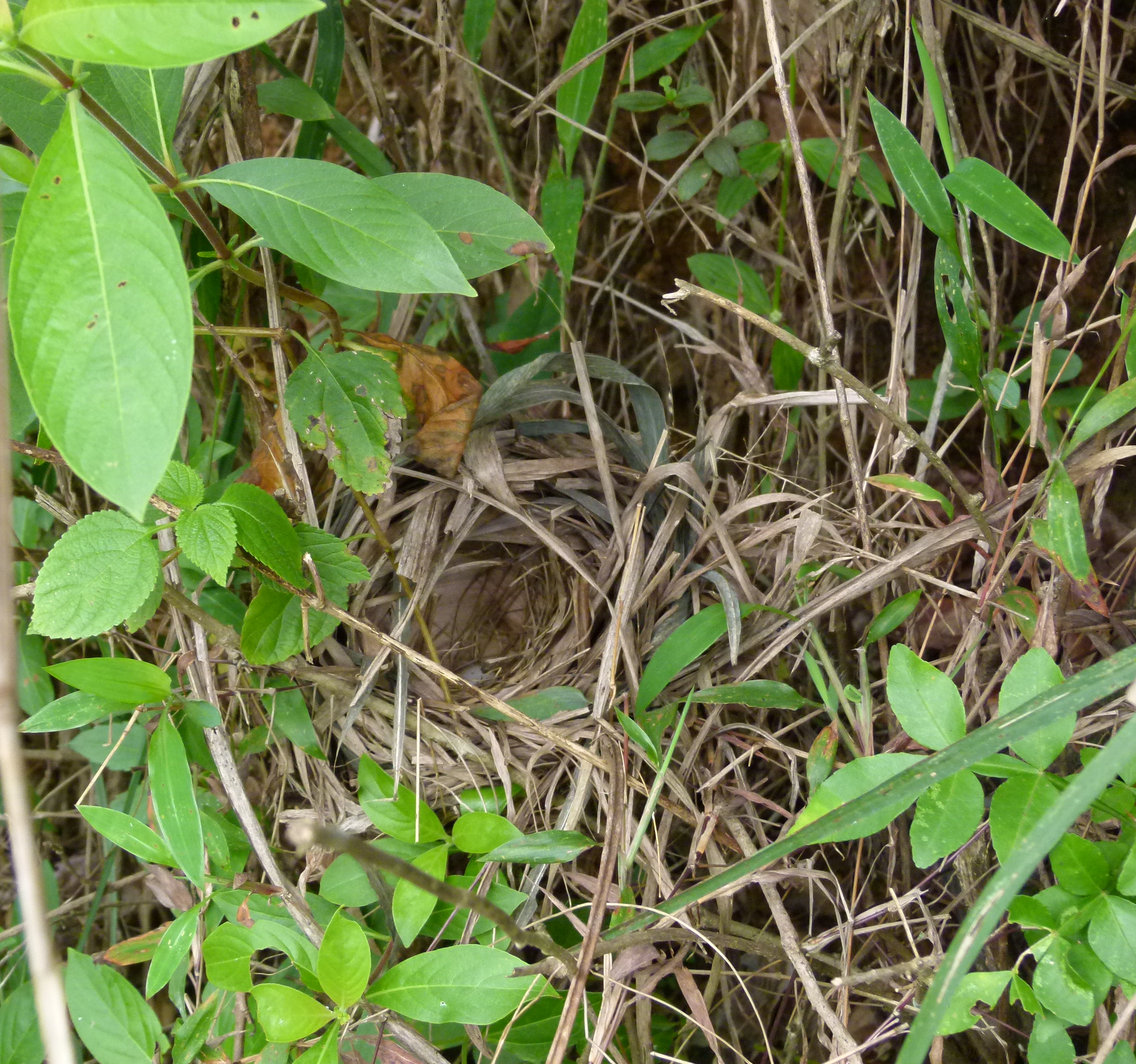 Nest of Rhopocichla atriceps. Wayanad, India